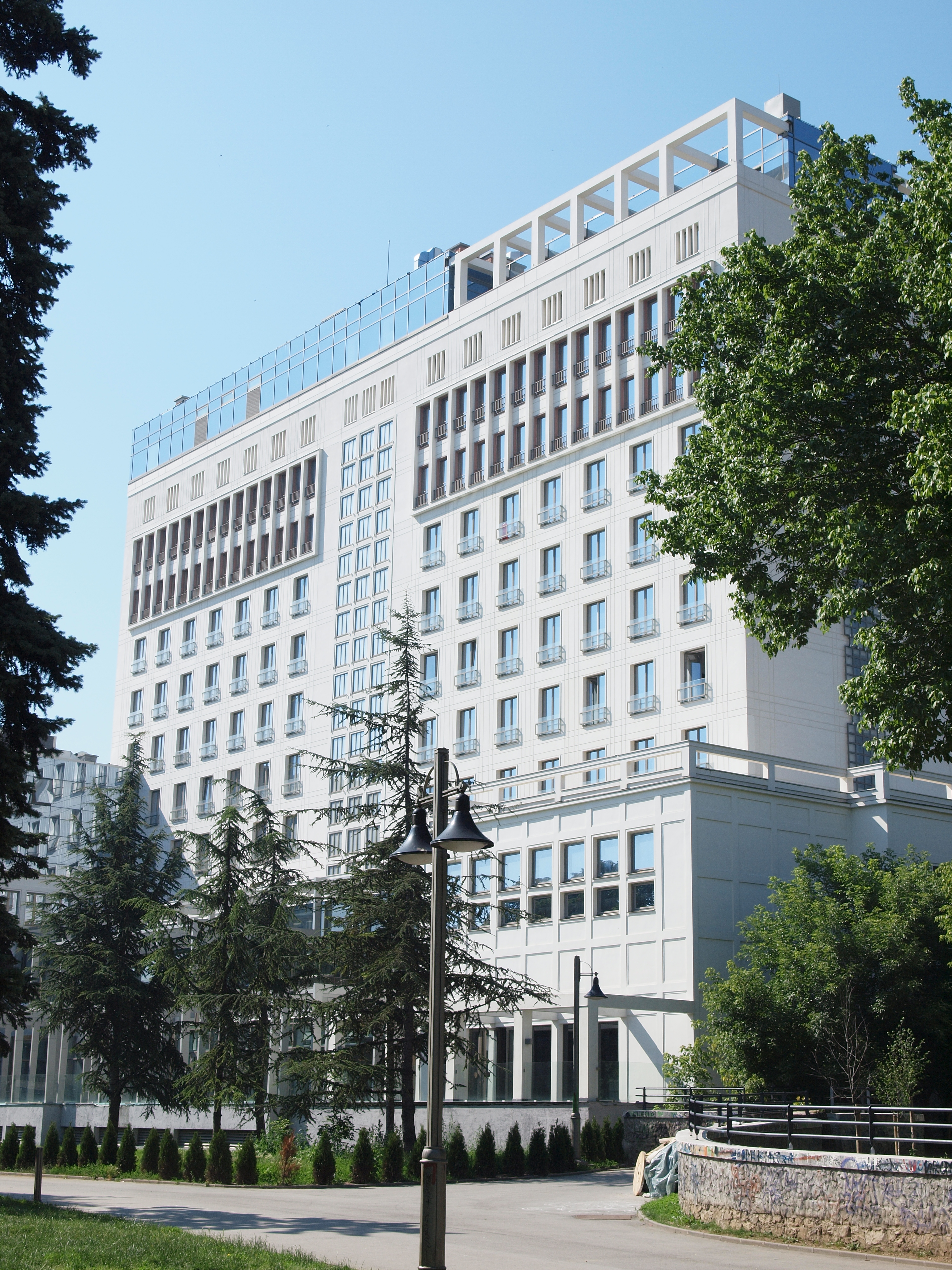 Hotel Metropol Belgrade Tasmajdan